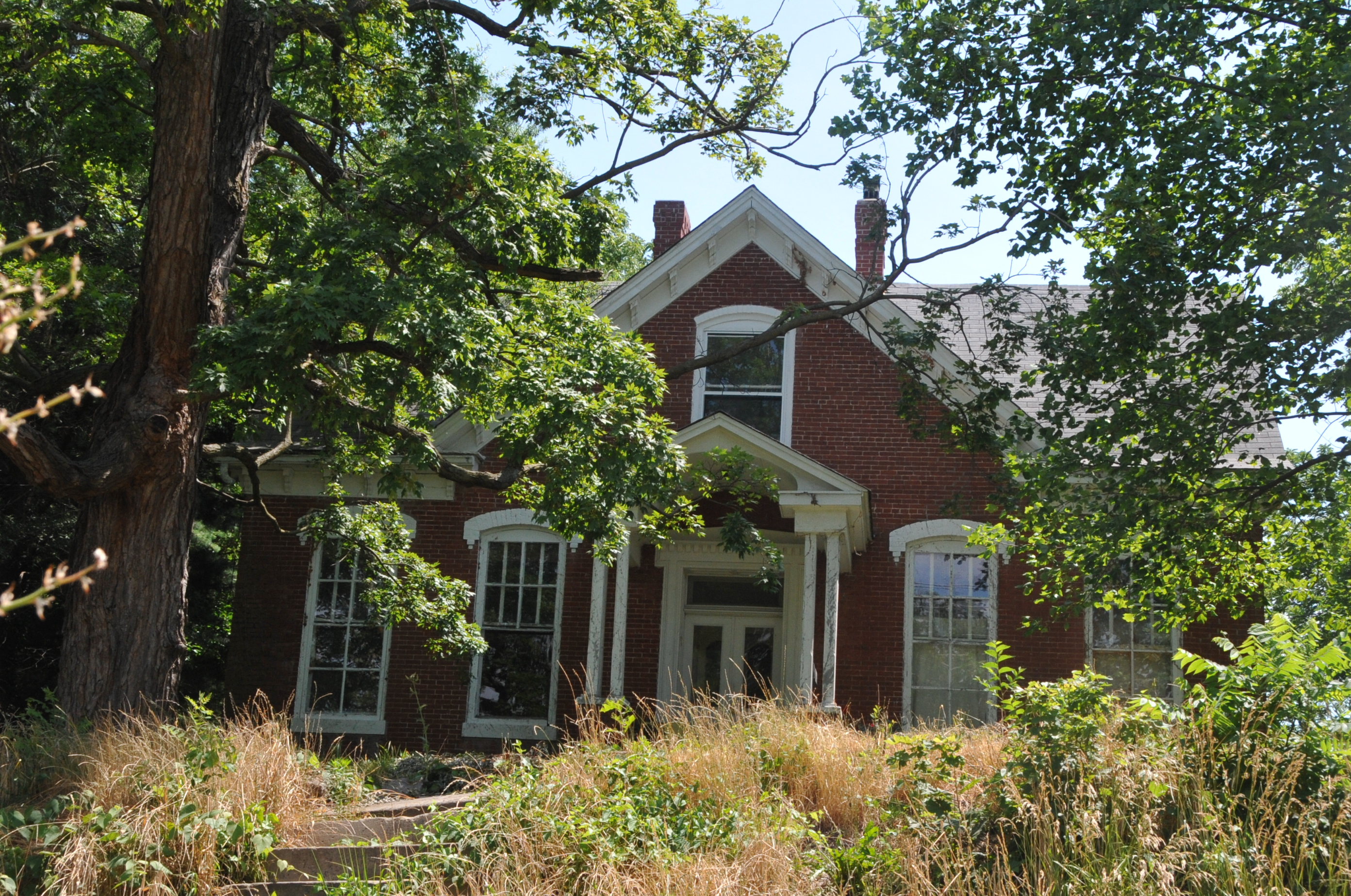 BUILT CIRCA 1857-1860 BY DR. WILLIAM H. TRIGG AS WEDDING GIFT FOR HIS DAUGHTER